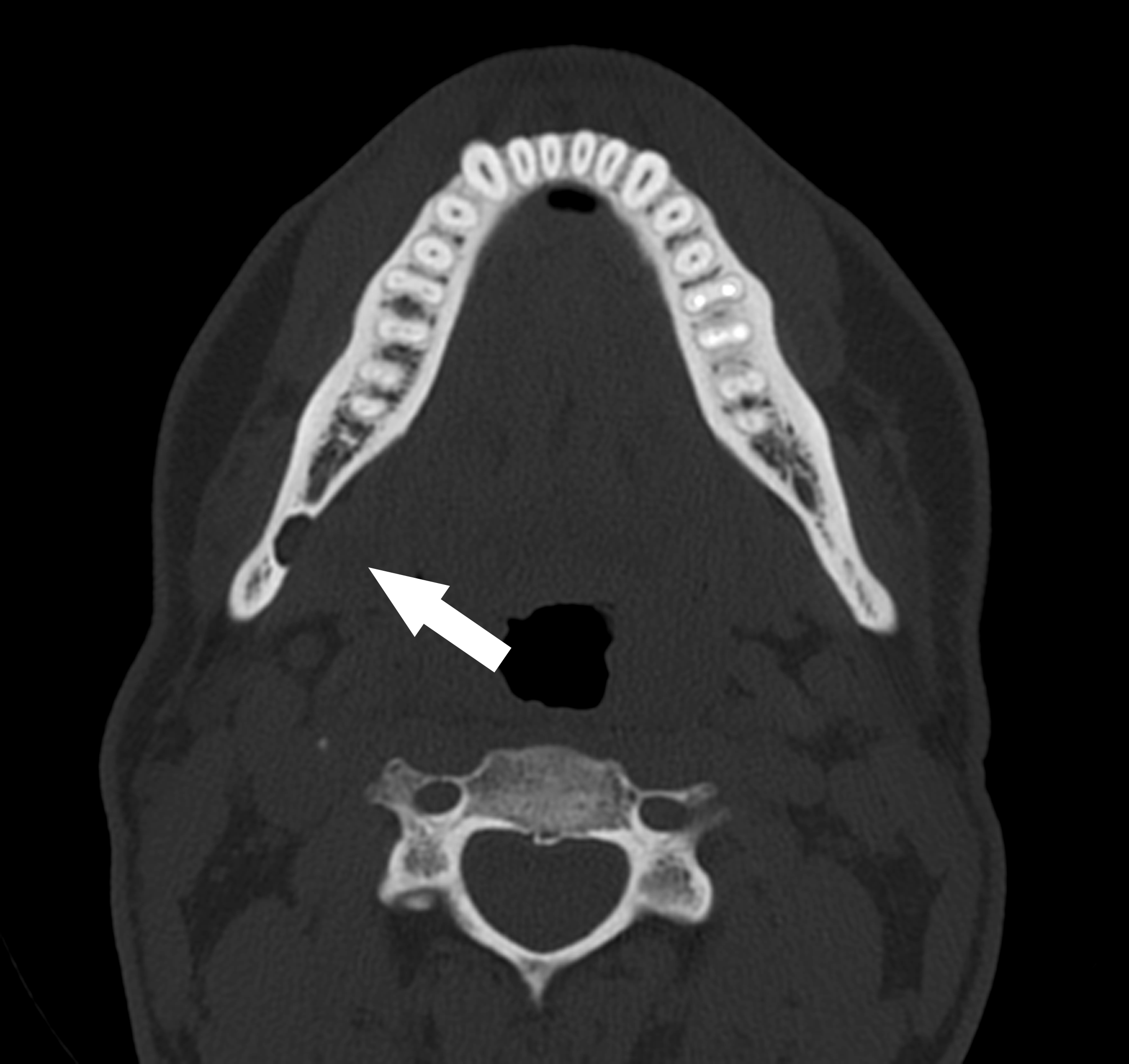 Well corticated 1cm round defect in the medial cortex of the mandible in the right angle of the jaw